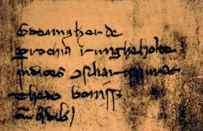 part of a testament from 1345, mentioning the name Rungholt (as Rungheholte)